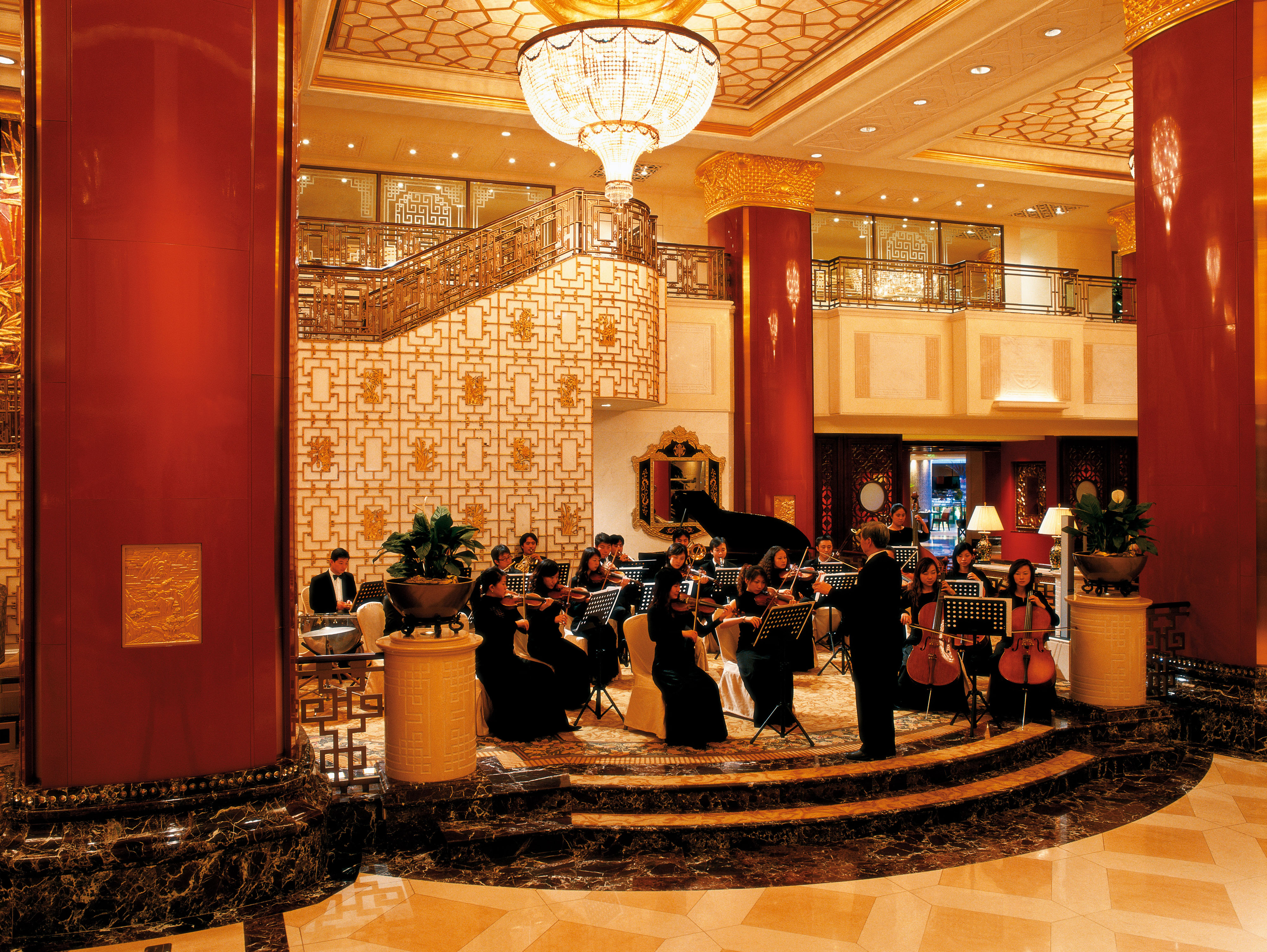 Sunday Orchestra Concert at the Lobby, China New World Hotel, Beijing